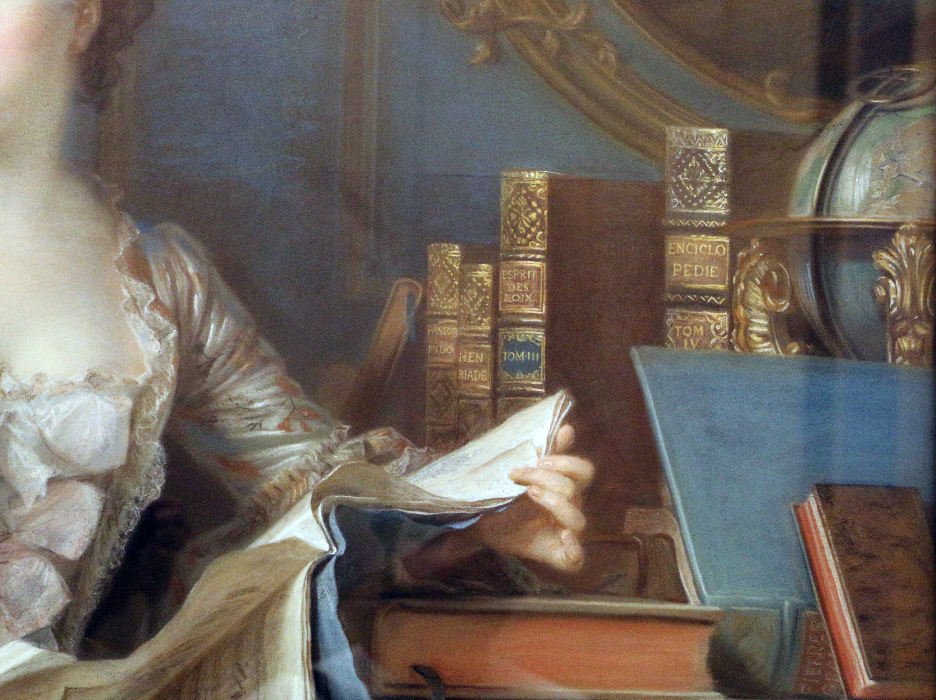 French paintings in the Louvre